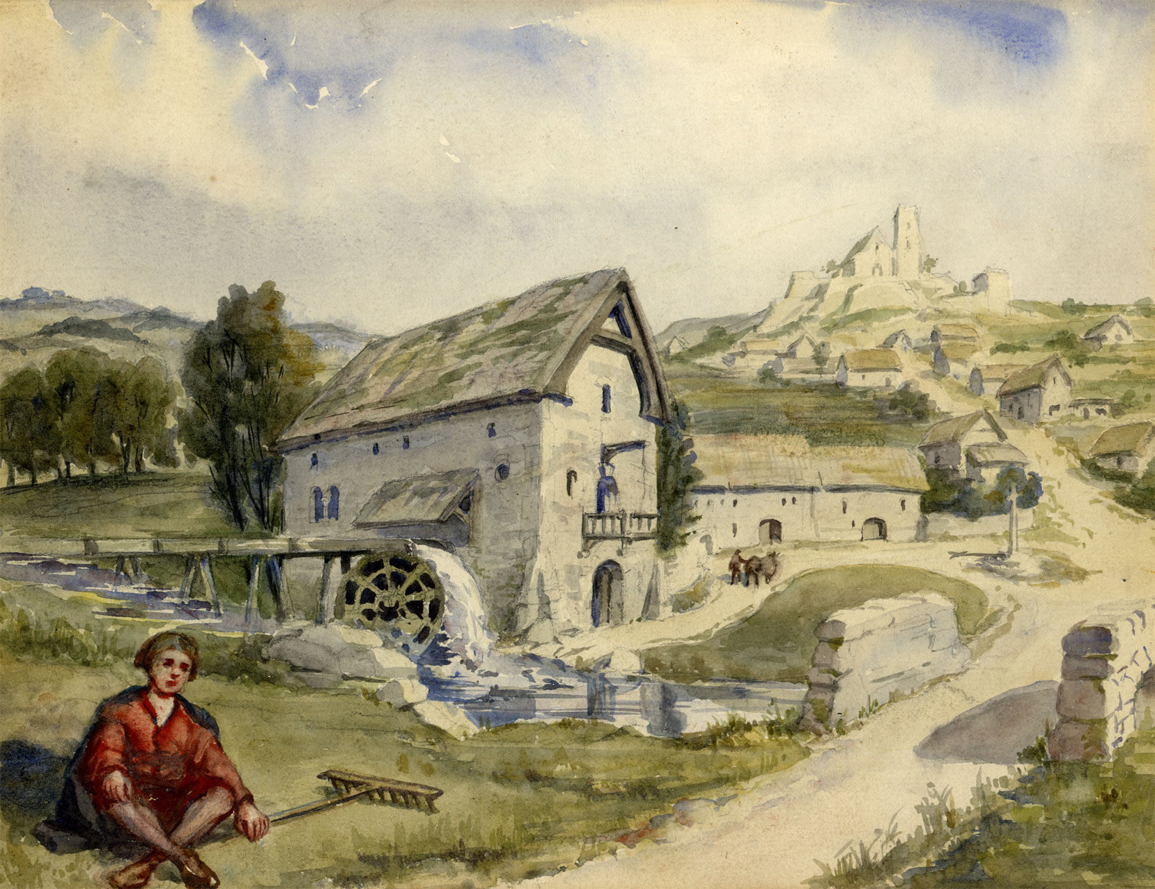 Watercolour by Henry Somerfield; Theme, Walsall Landscape, Walsall Artist, rural, work